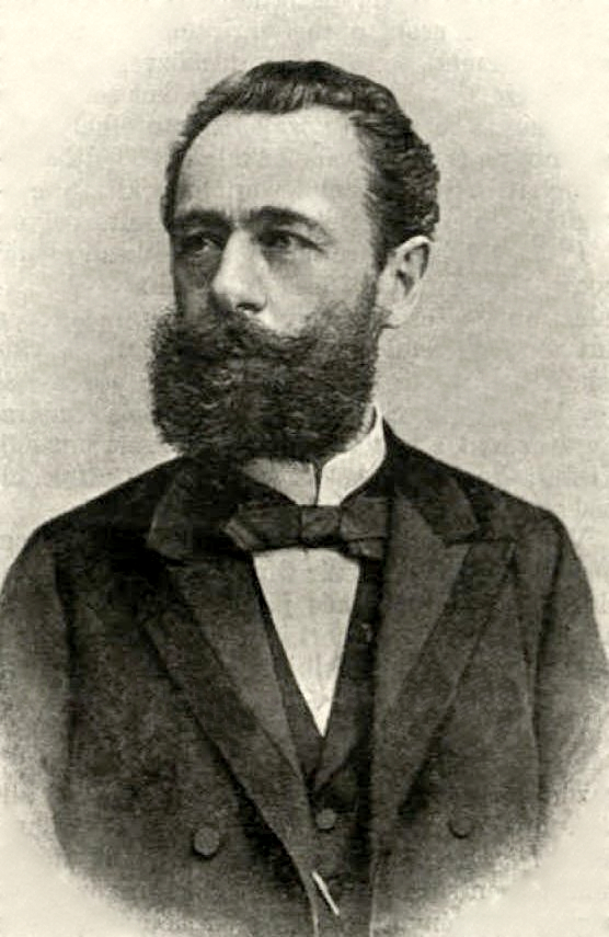 János Török, lawyer, mayor of Temesvár, Chief of Police of Budapest